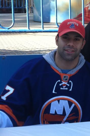 Brian Strait in October 2013